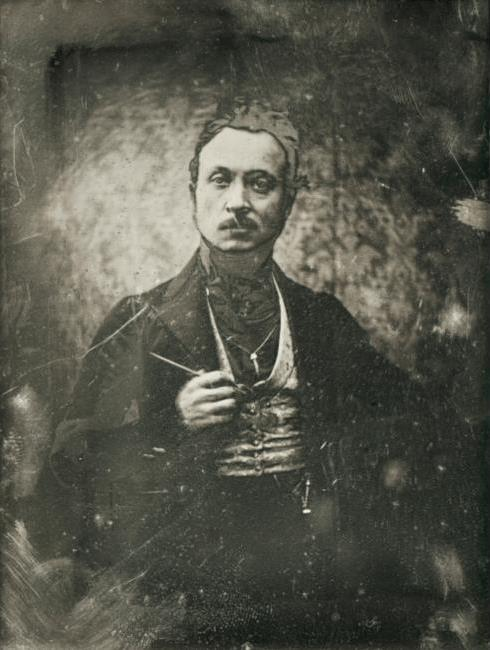 Lot 11: Joseph-Philibert Girault de Prangey (1804-1892) , Autoportrait, 1841.